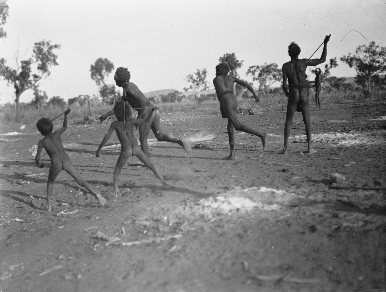 All over Aboriginal Australia, men, youths and sometimes boys play games where they try to spear moving targets. Often the targets are round discs of bark. In the Humbert River area two sides take it in turns to spear the disc rolled in front of them. Games such as this help the younger players develop their spear-throwing skills.